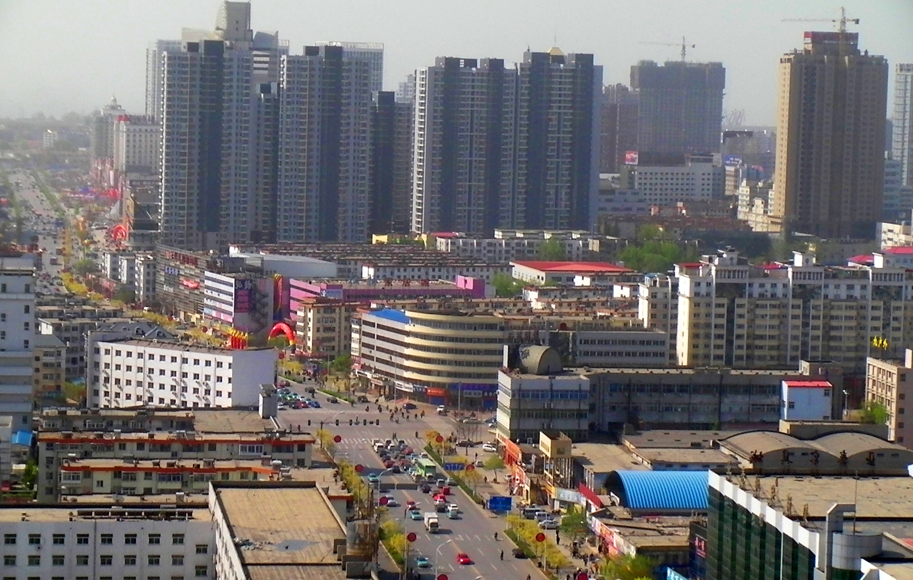 Looking south along Minzu Road from the top floor of the International Trade Hotel (国贸饭店) in Qinhuangdao, China at 9 AM local time. +Autocontrast in Adobe Photoshop Elements 6.0